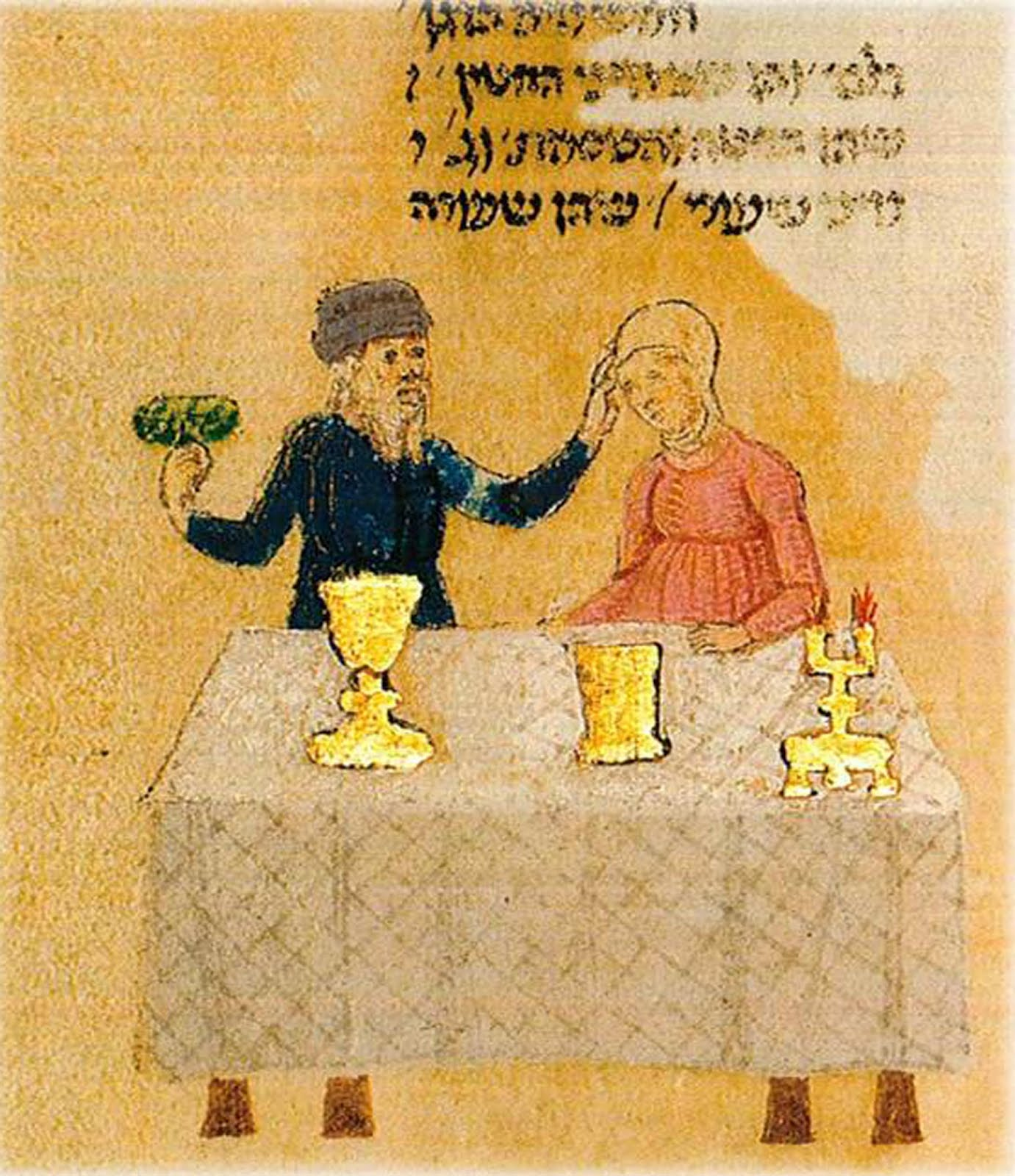 Illustration from Rotschild miscellany Haggadah. There is a custom that a man points to his wife when mentioning marror based upon the verse Ecclesiastes 7:26 “Now I find woman more bitter than death.”